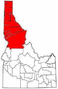 Modified from public domain map courtesy of The General Libraries, The University of Texas at Austin, modified to show counties, and further to show the Idaho Panhandle. See Wikipedia:U.S. county maps. The image was modified from Image:Map of Idaho highlighting Fremont County.png by User:TShilo12. See that image for more © release information.